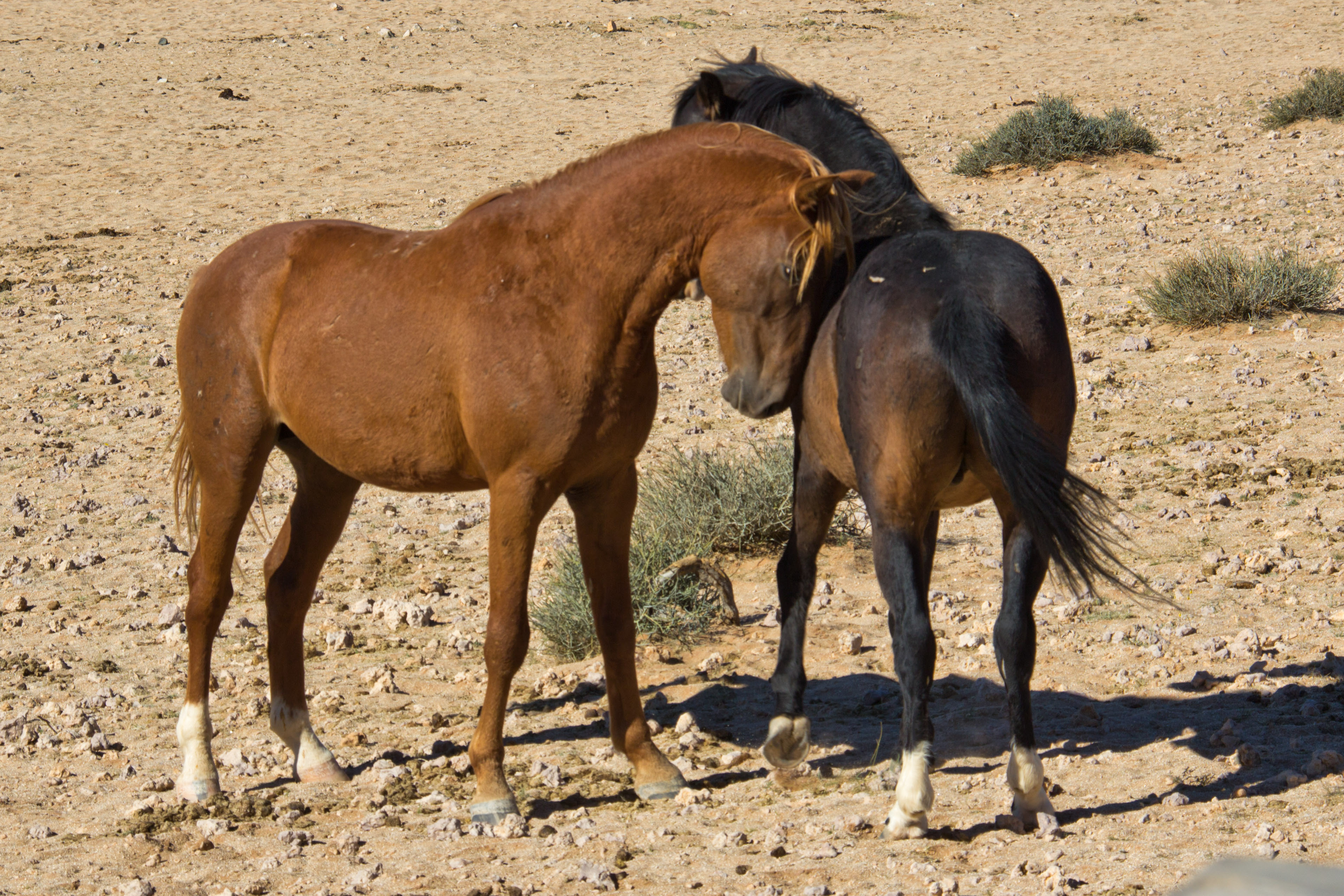 Feral (wild) horses of the Namib